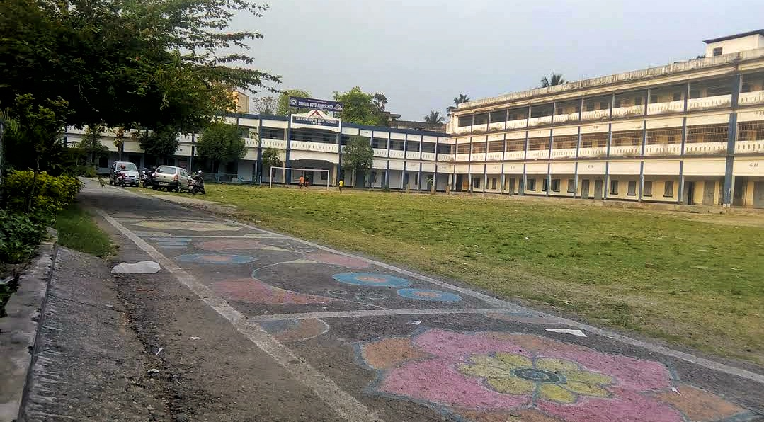 Siliguri boy's high school